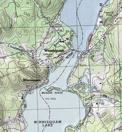 USGS topographic map composite showing the location of the village of Winnisquam, New Hampshire.